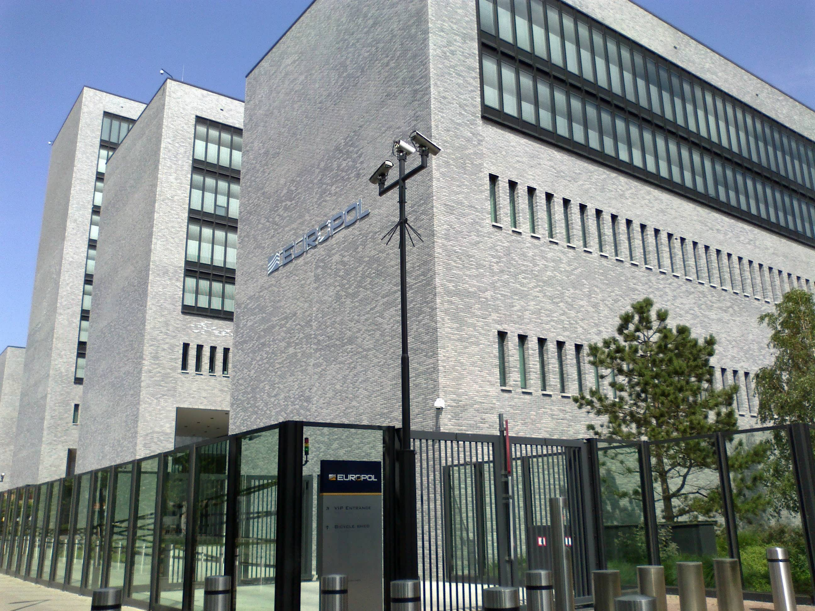 Europol Headquaters at the Eisenhowerlaan in The Hague, the Netherlands, which was opened by H.M. Queen Beatrix of the Netherlands in 2011.